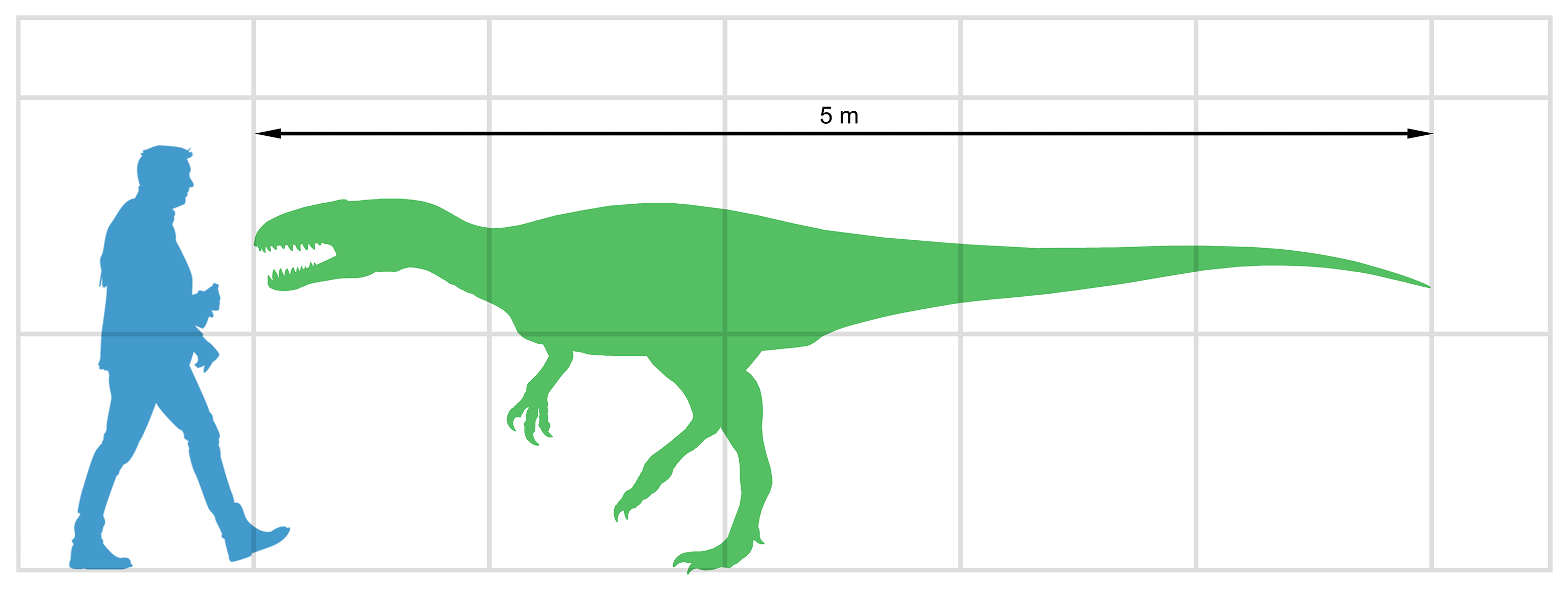 Size of Poekilopleuron compared to human. Size estimated from length of arm material compared to other members of Afrovenatorinae.